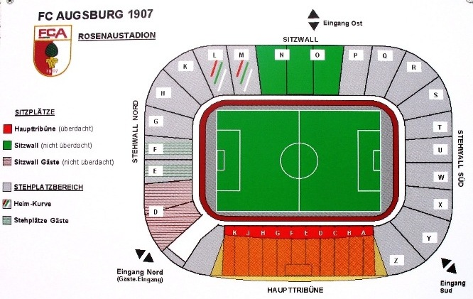 Rosenaustadion, photograph of a sign from a public street.